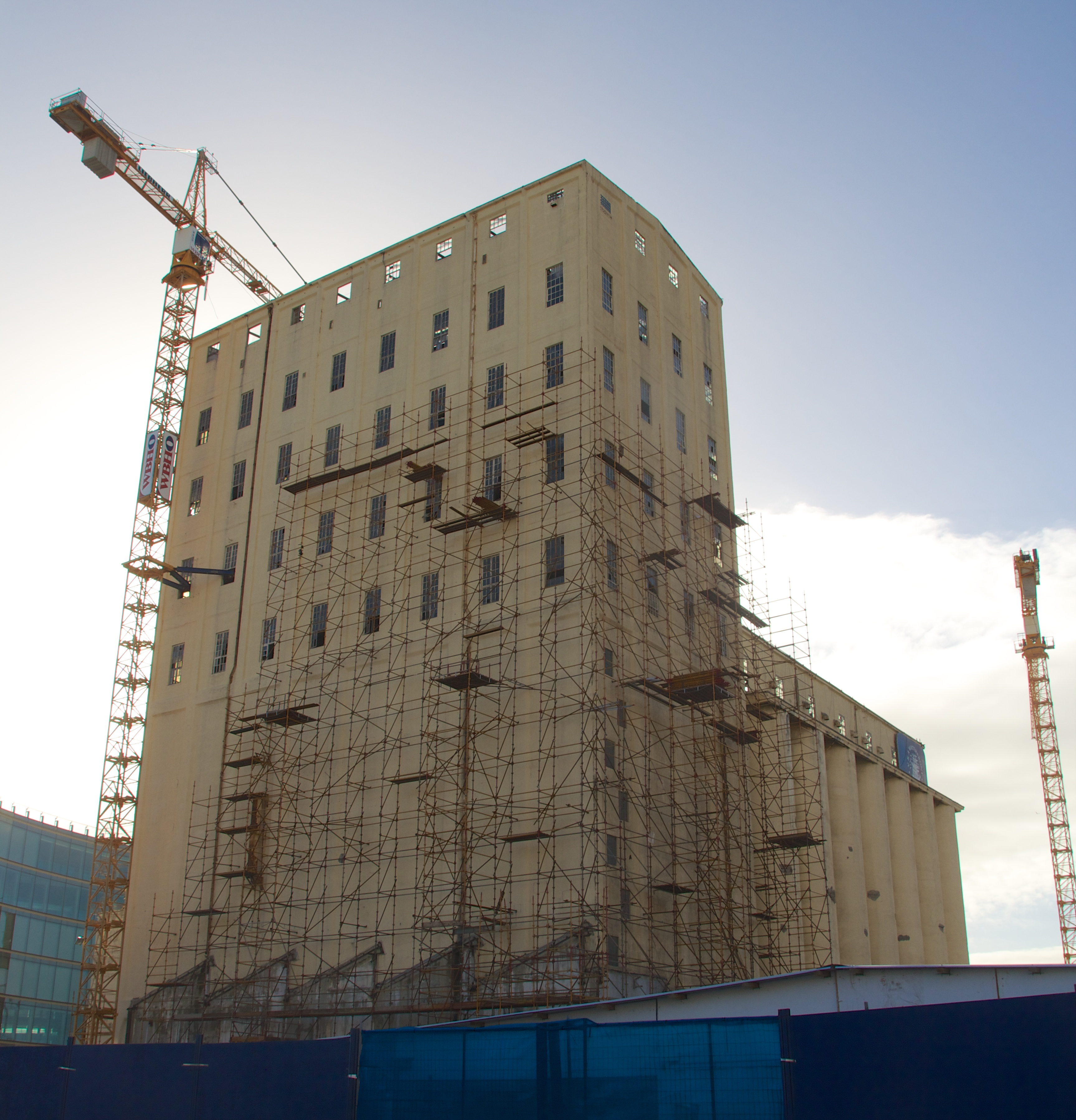 No. 1 silo at the Port of Cape Town.